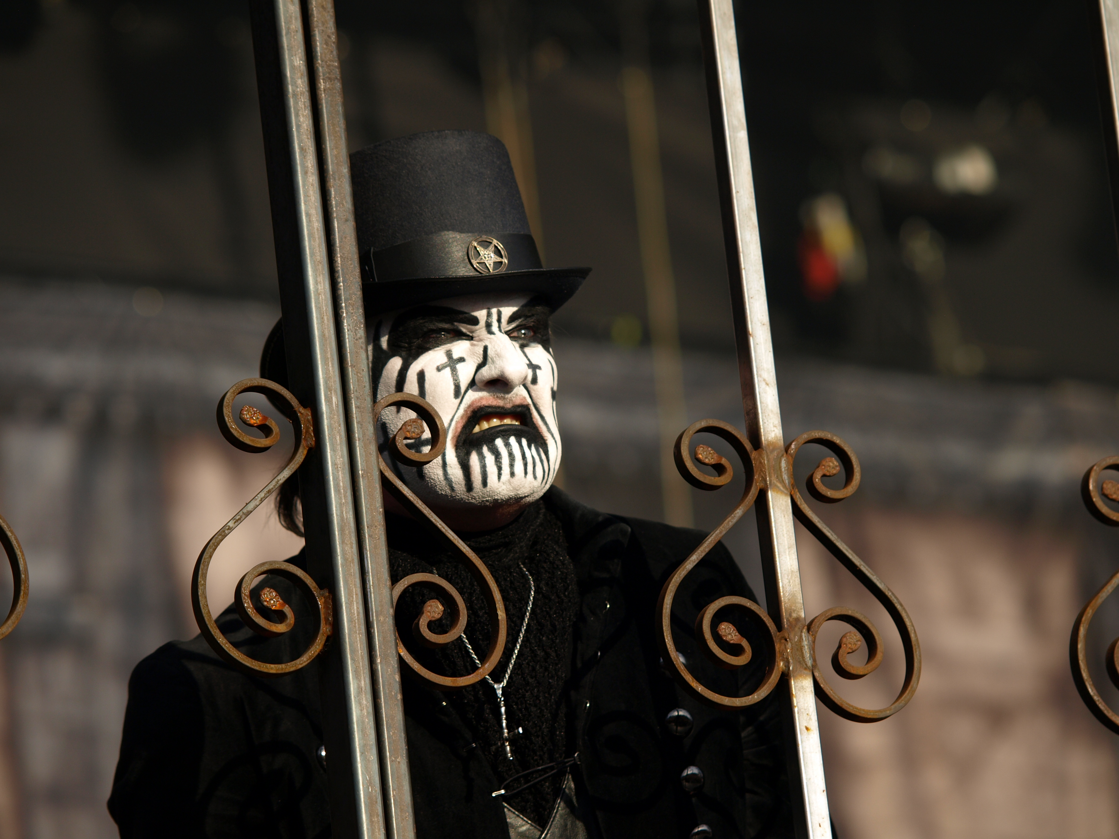 King Diamond and his band live at Tuska Open Air 2013